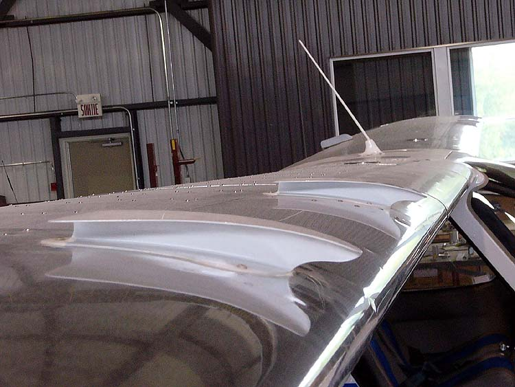 I took this photo of Symphony Aircraft SA-160 vortex generators in August 2005 at the Symphony plant.